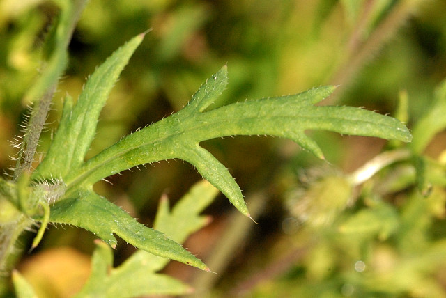 Papaver rhoeas from Commanster, Belgian High Ardennes .